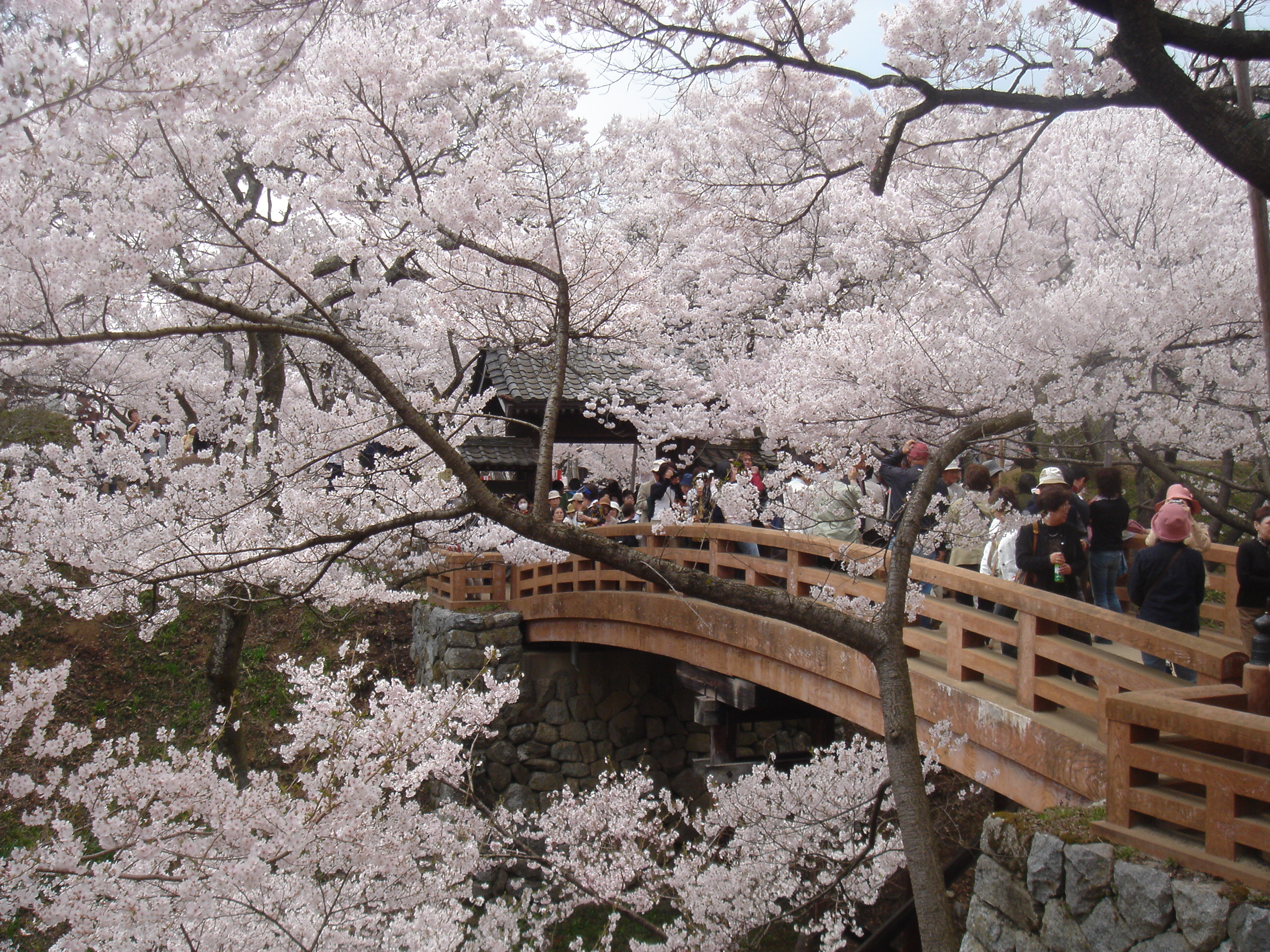 Prunus subhirtella (winter-flowering cherry) in Takato Castle Park in Takato-machi, Ina city, Nagano prefecture, Japan.